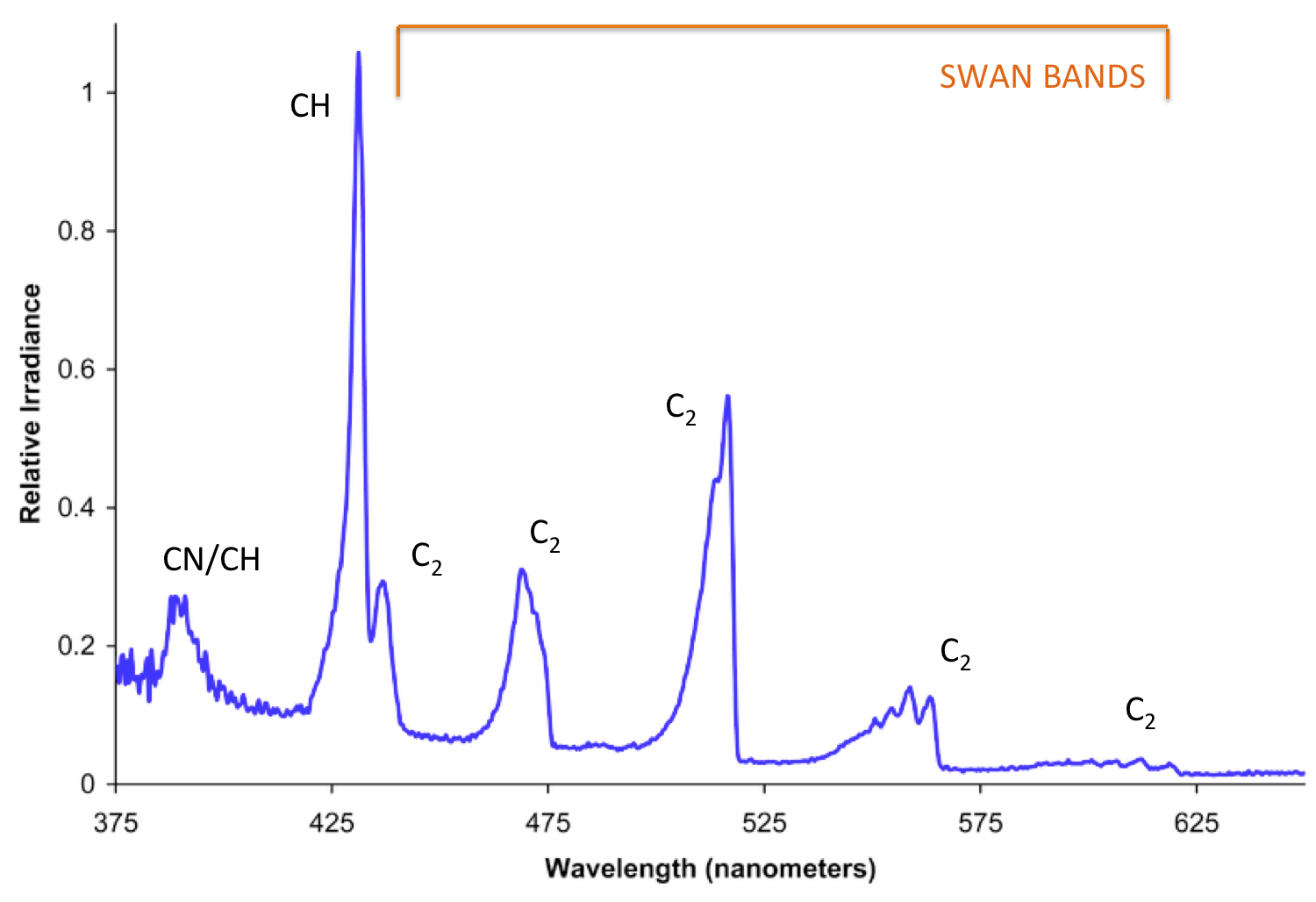 Intensity corrected version of this image: Image:Spectrum of blue flame.png taken on same hardware setup but using the irradiance mode of the spectrometer where the nonlinear response of the detector to the intensity of light falling on it is corrected for. The region below ~420nm is very noisy due to the lack of light at those wavelengths in the tungsten halogen lamp which is used for intensity calibration, all information below 375nm is too noisy to be useful. Spectrum taken by me using an Ocean Optics HR2000 spectrometer [1]. The flame of the torch was placed adjacent to the fiberoptic input port of the spectrometer so that attenuation of the shorter wavelengths by the fiber could be avoided. This may have introduced a slight "smearing" of the spectrum due to the lack of collimation of light entering the spectrometer but in comparing this spectrum to one taken through the fiber there is very little if any difference between the two. The data from the spectrometer used to create this image is in CSV format on the talk page.